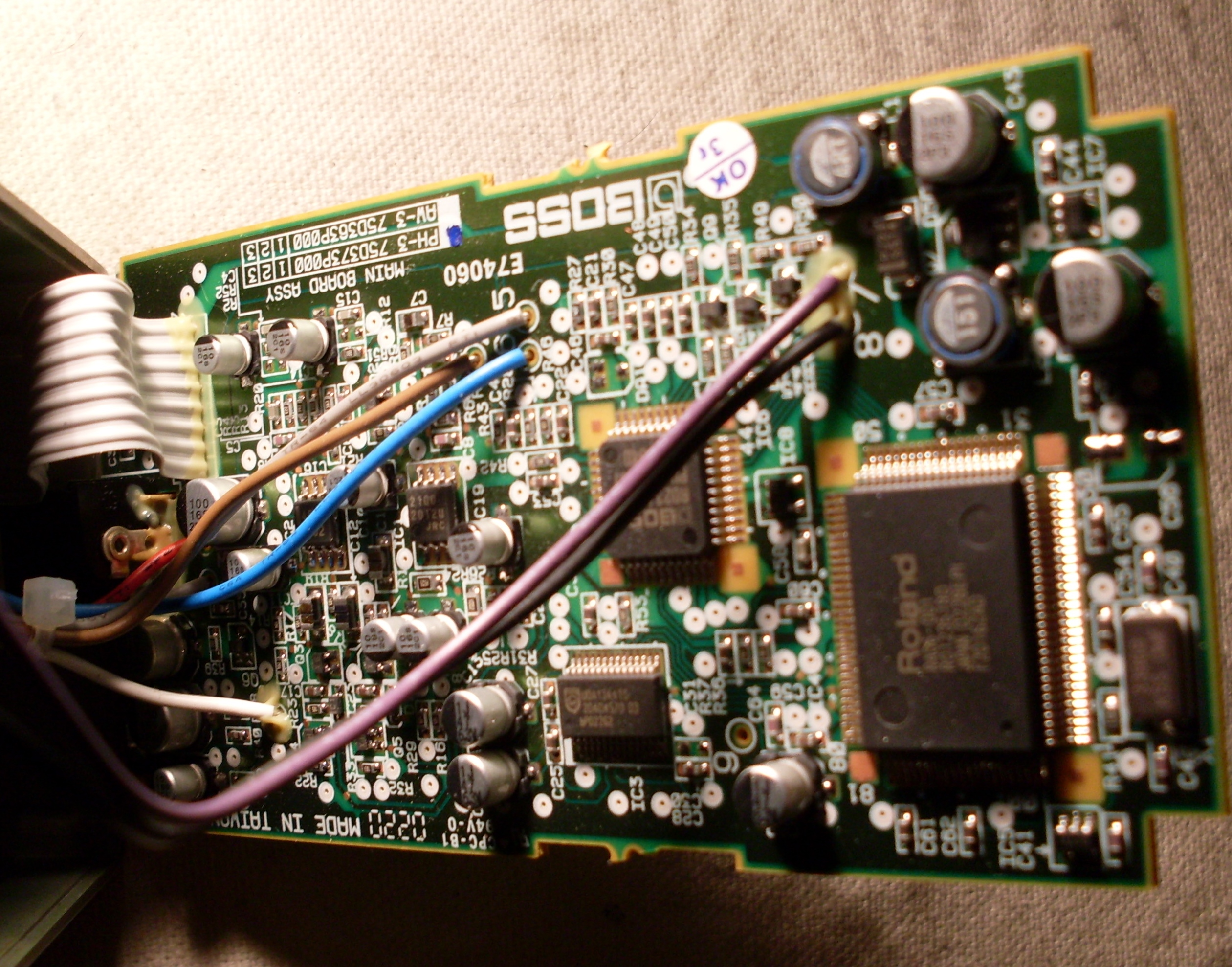 Top PCB of a Boss PH-3 phaser pedal (the picture has been slightly cropped)